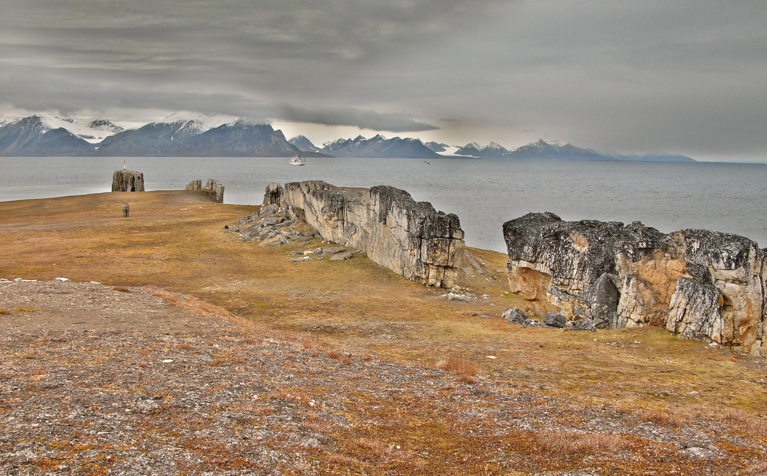 to be done